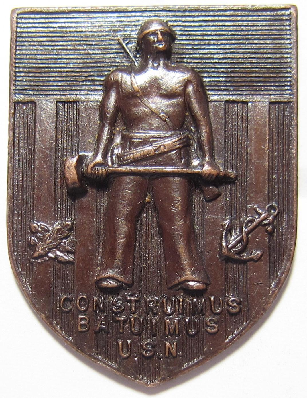 Seabee logo DI badge of a Seabee with a sledge hammer and rifle across his back